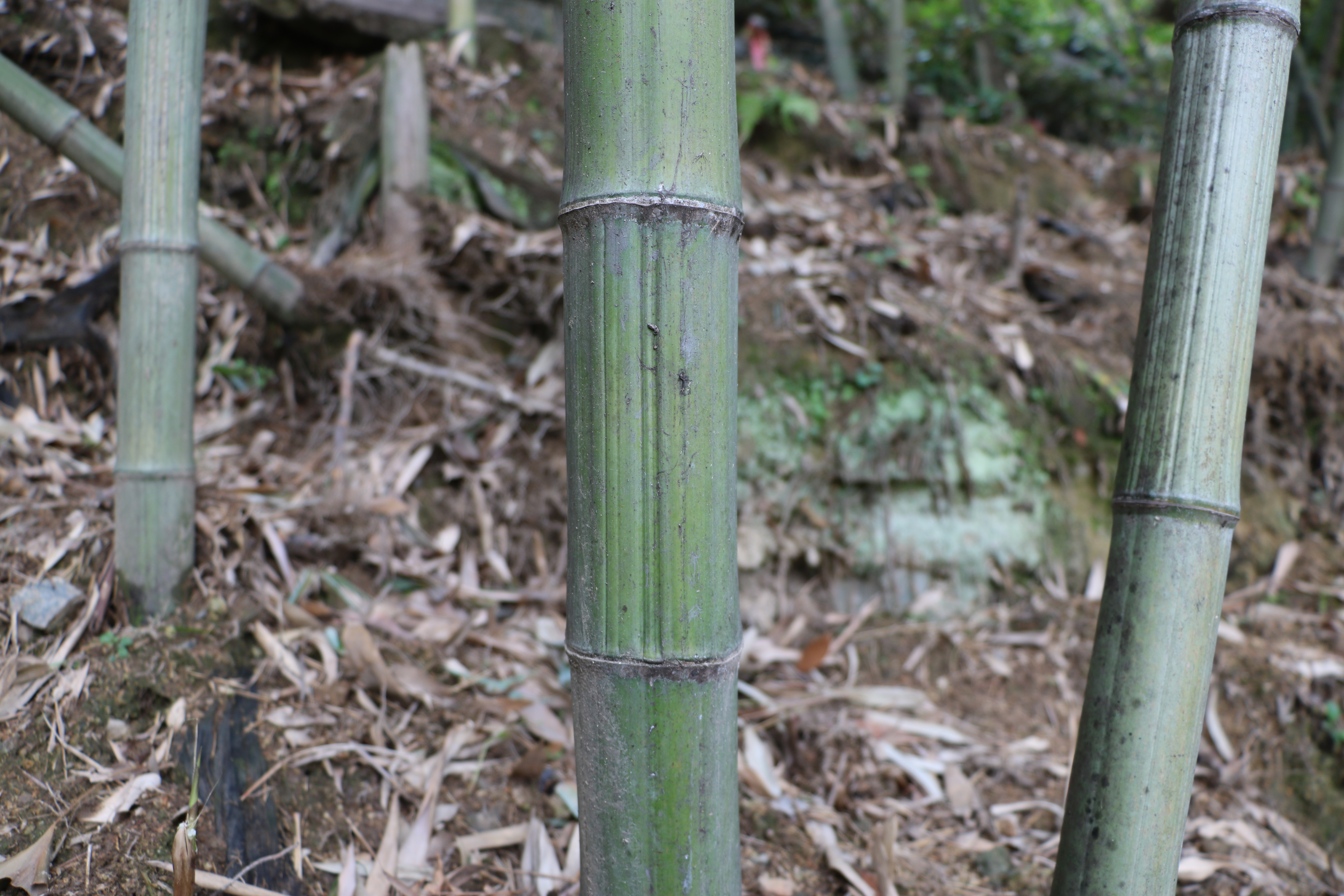 Tatsuno no Katashibo Chikurin Bamboos